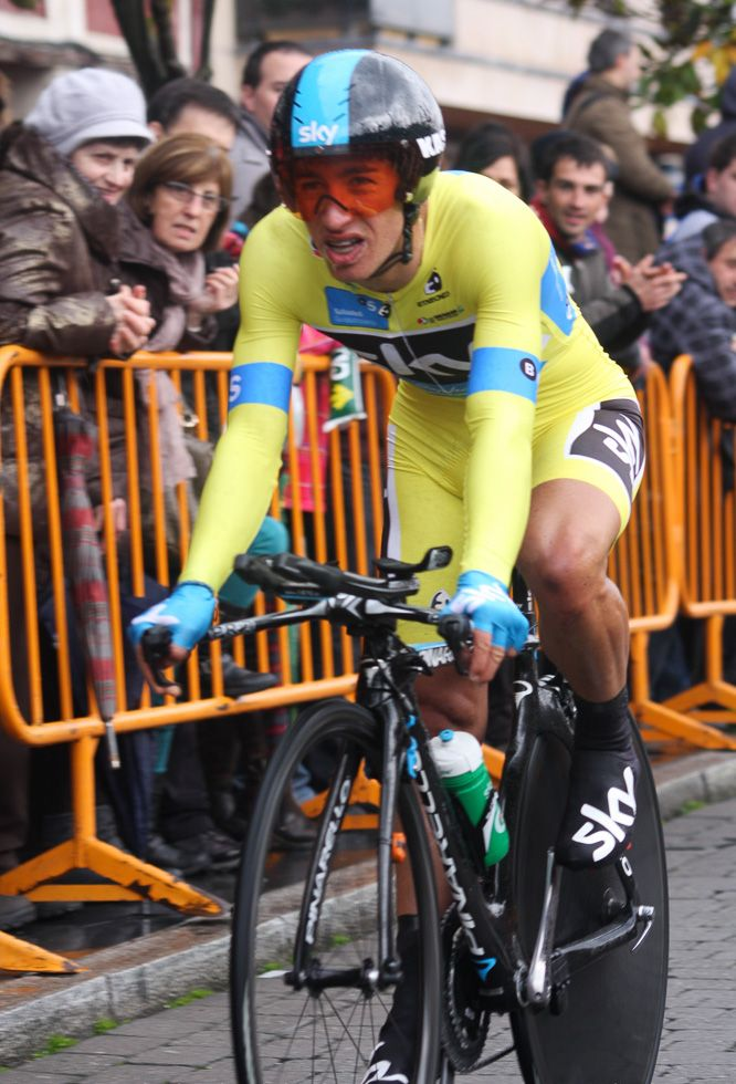 Sergio Luis Henao with the yellow jersey on the final stage of the Tour of the Basque Country 2013